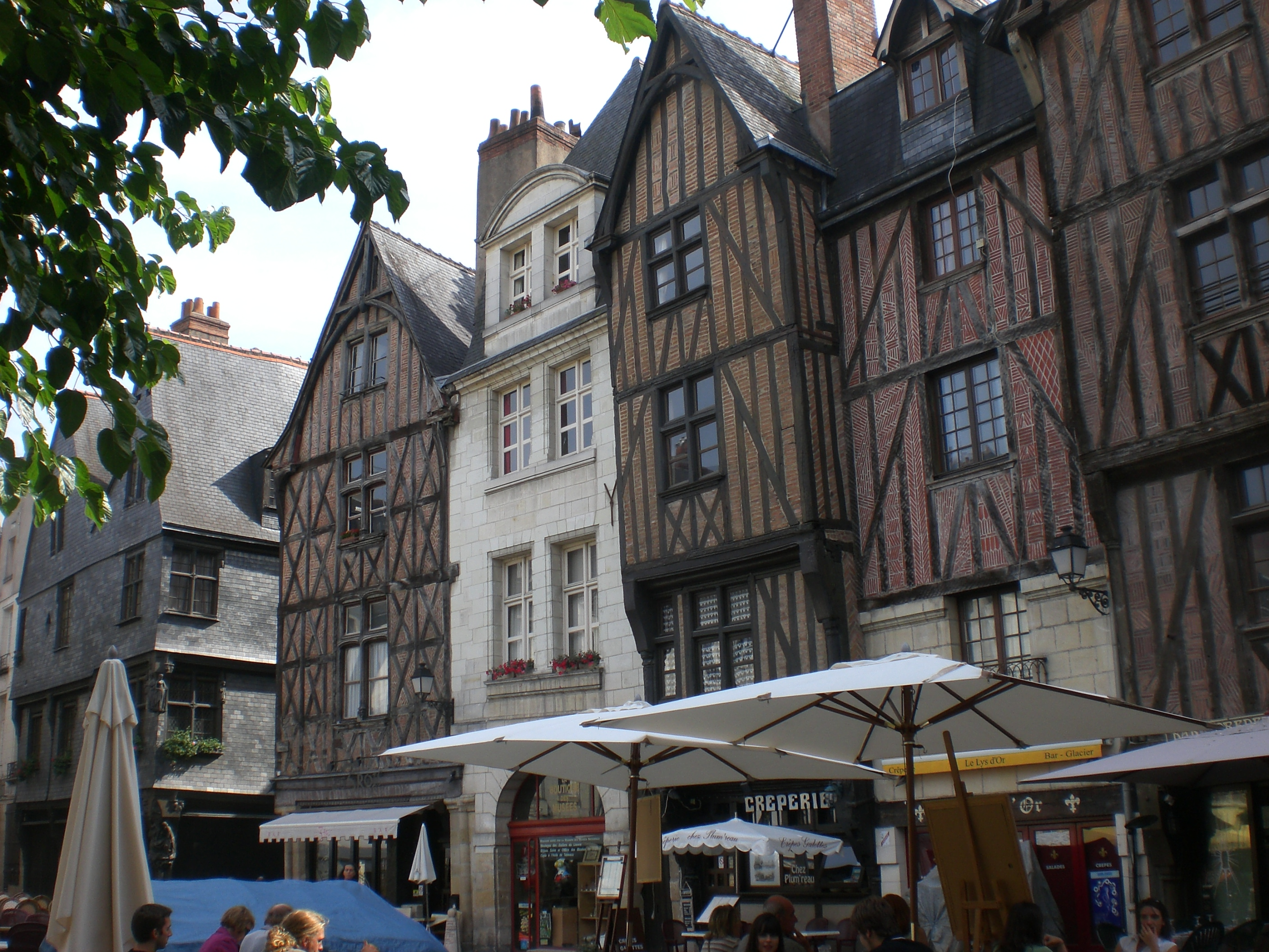 Old Houses in Plumereau Square, Tours